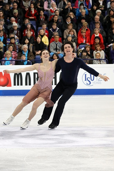 Tessa Virtue and Scott Moir at the 2017 World Championships